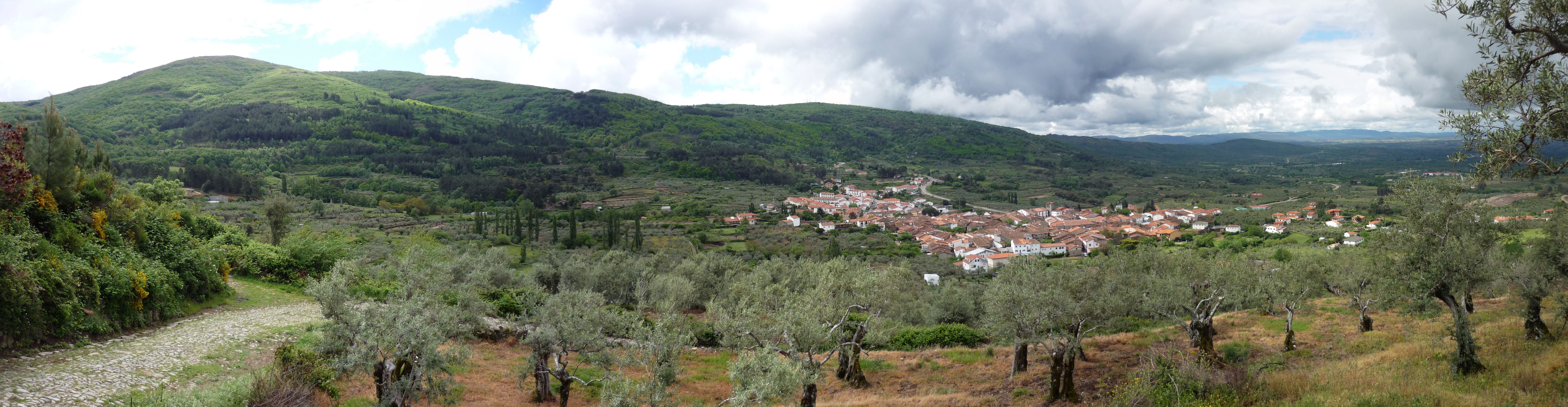 Photo of the town of San Martin de Trevejo, Spain. Taken from the path to the Santa Clara mountain pass.